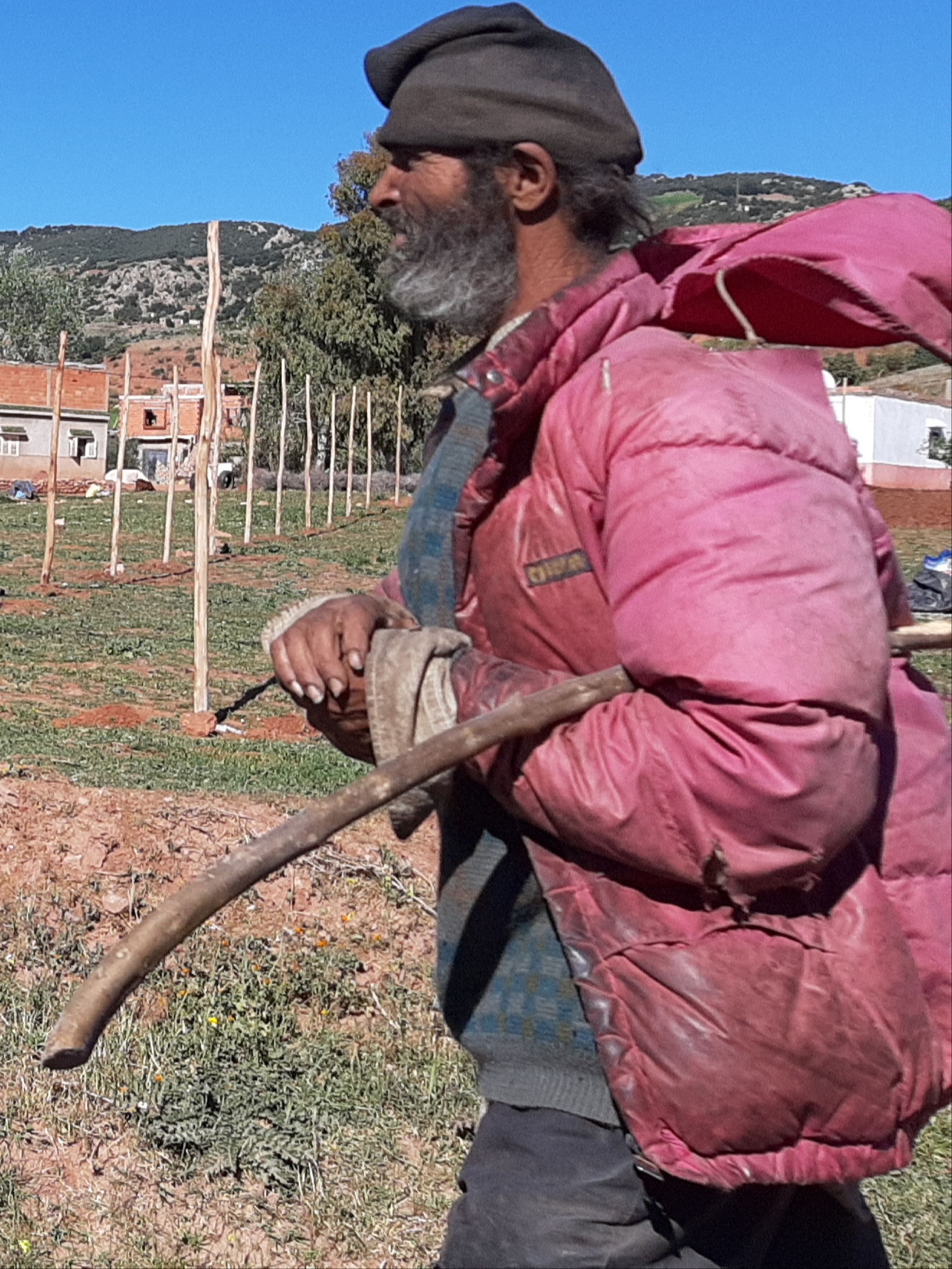 This is an image with the theme "Africa on the Move or Transport" from: Morocco